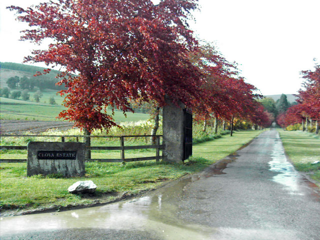 Driveway to Clova A copper beech tree lined driveway upto Clova Estate.